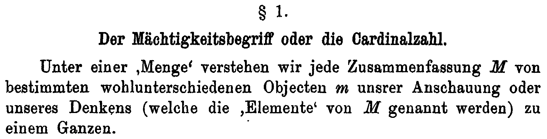 Passage with the set definition of Georg Cantor (German version)